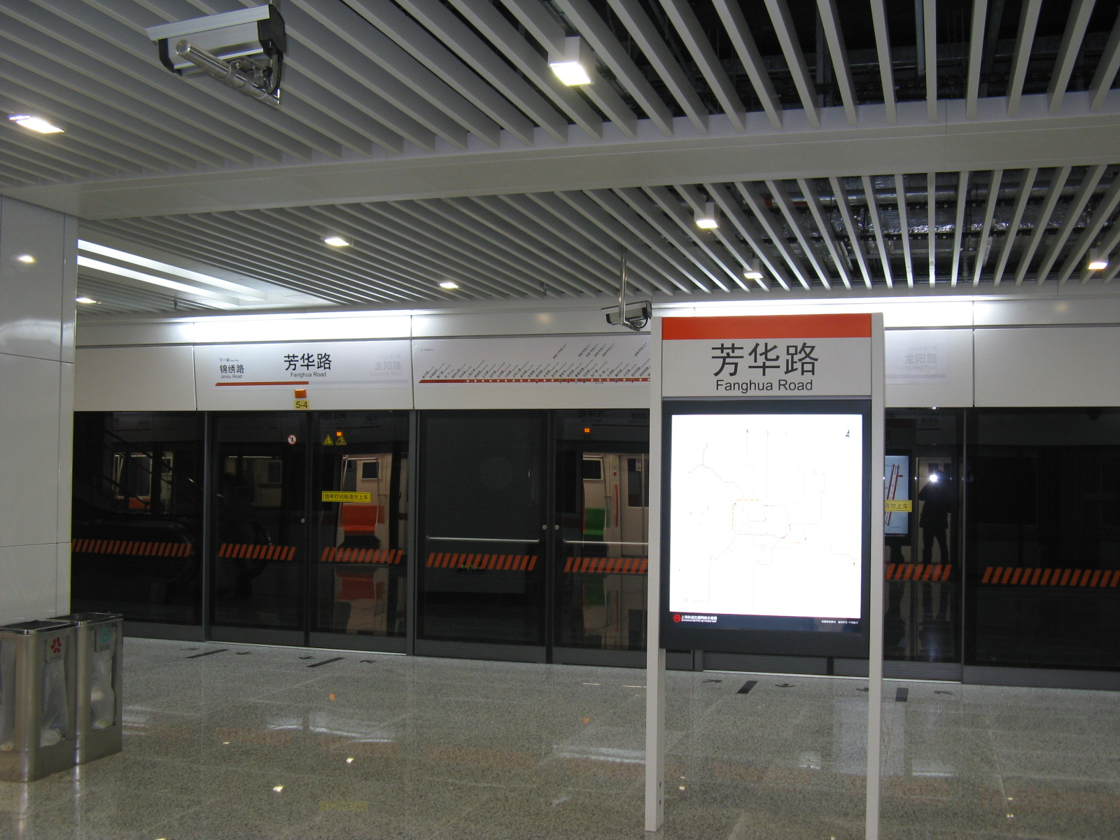 Fanghua Road Station Line7 Shanghai Metro